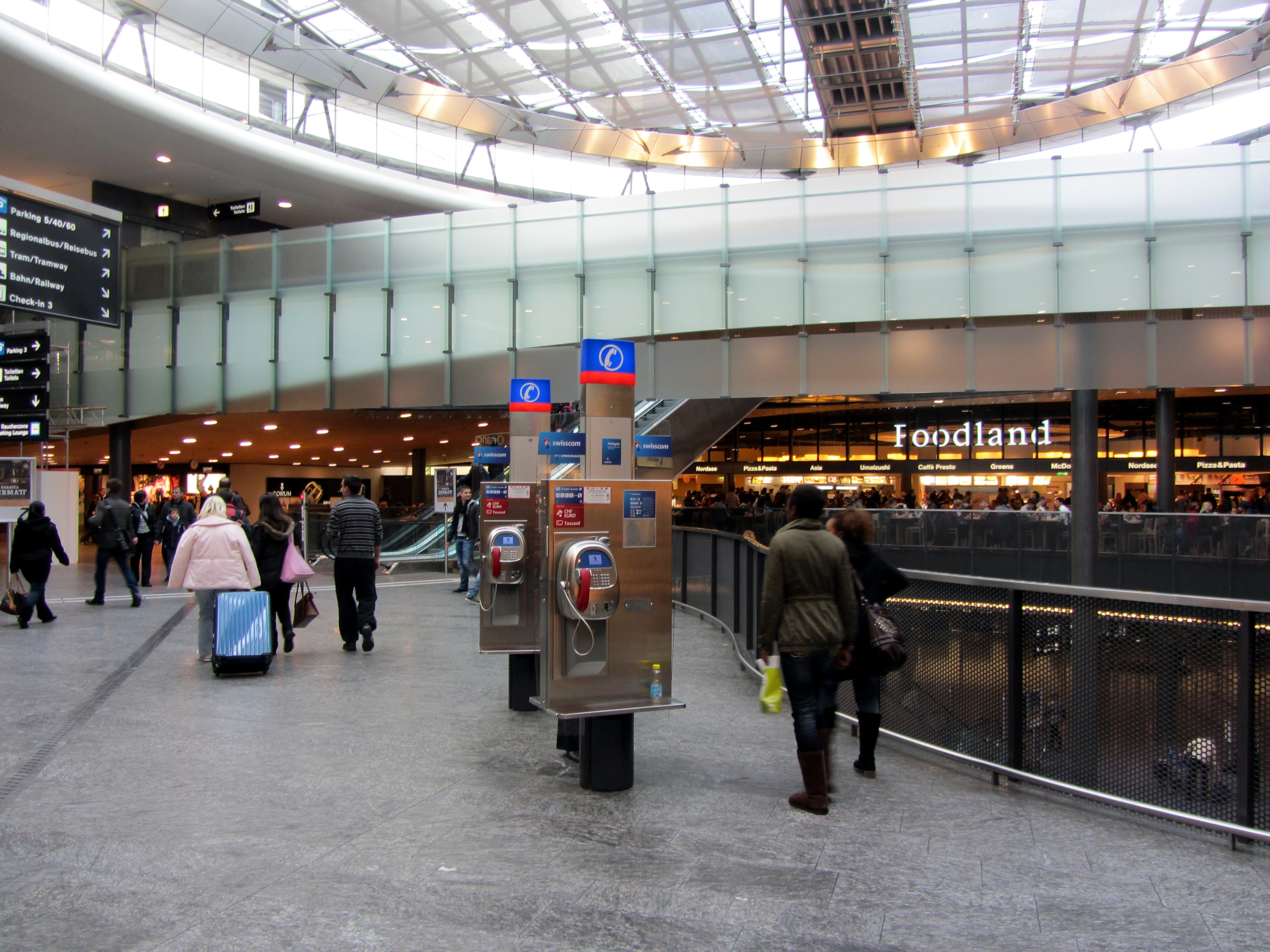 Zürich International Airport in Kloten (Switzerland)